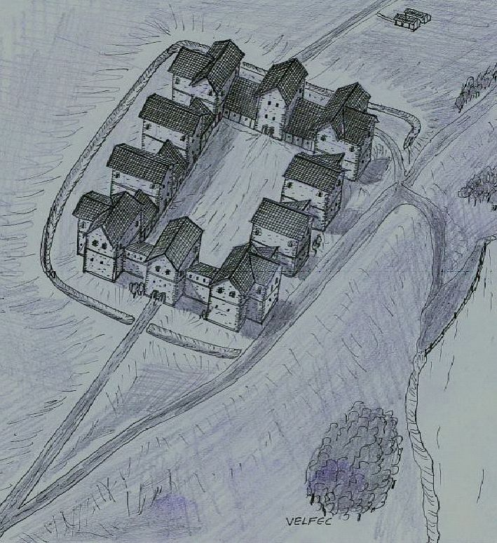 Reconstruction late roman castle Oedenburg-Altkirch (F).